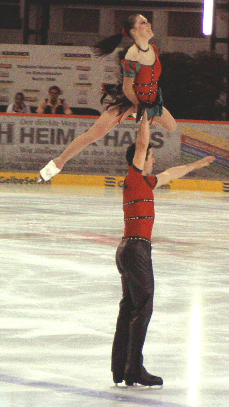 Eva-Maria Fitze and Rico Rex at their free program at the German championships 2006 in Berlin.